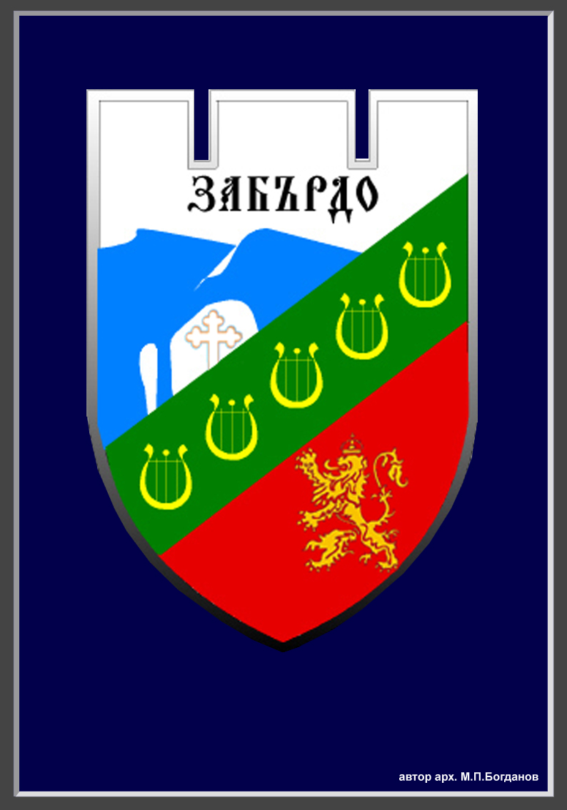 Blazon Zabardo village